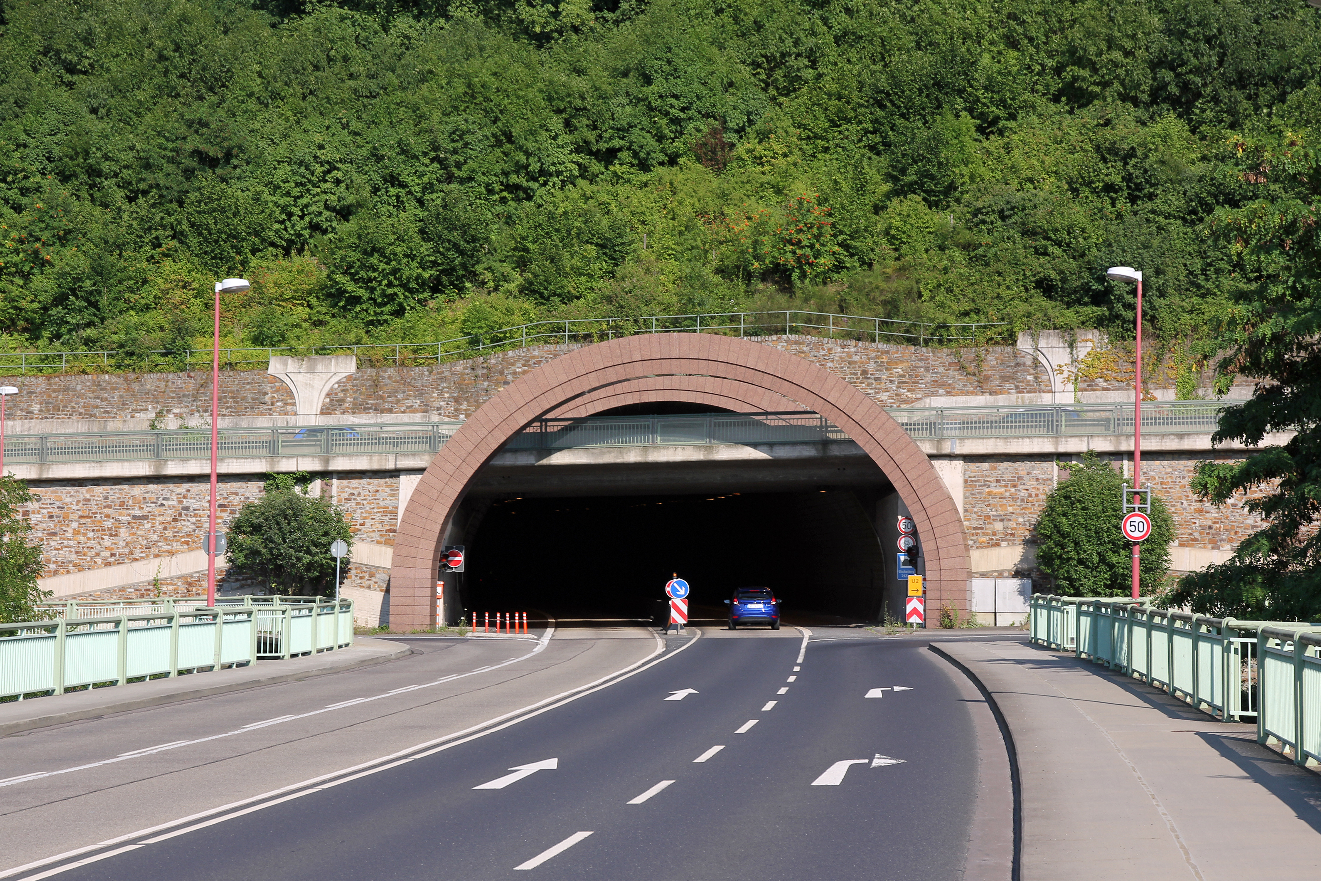 Glockenberg tunnel nearby Pfaffendorf Bridge in Koblenz